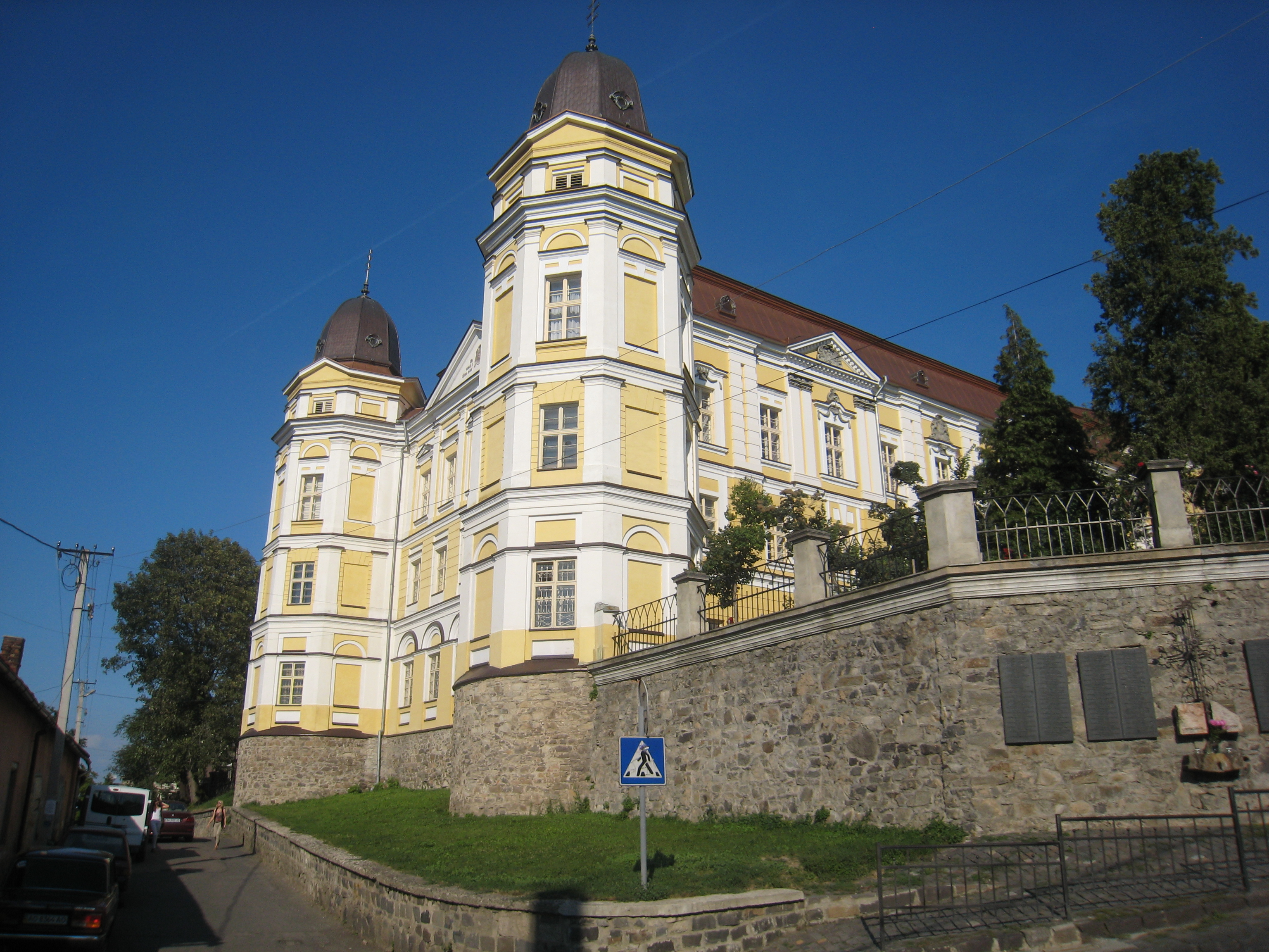 Eparchial Palace in Uzhhorod.